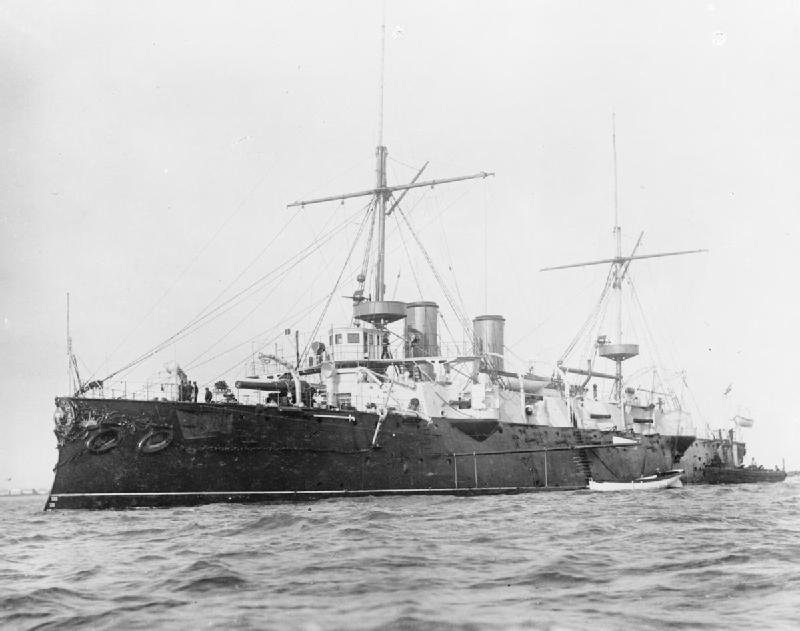 Symonds and Co Collection H. M. S. AURORA, 1890.